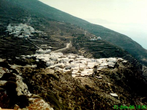 Sikinos. Sikinos Town, Sikinos.